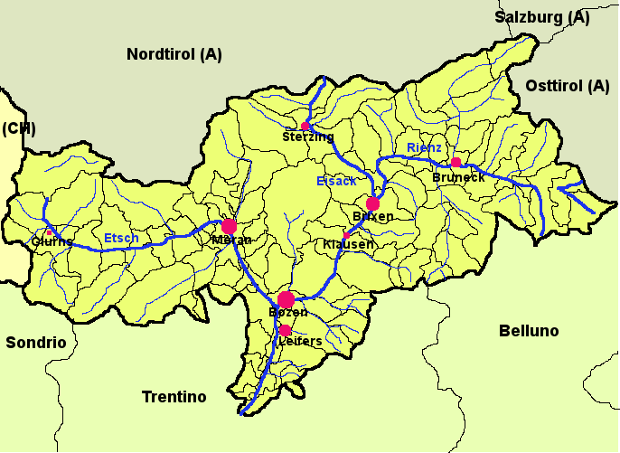 Map of South Tyrol with German labels. For improvements and translations use the source file (Map of South Tyrol.xcf)